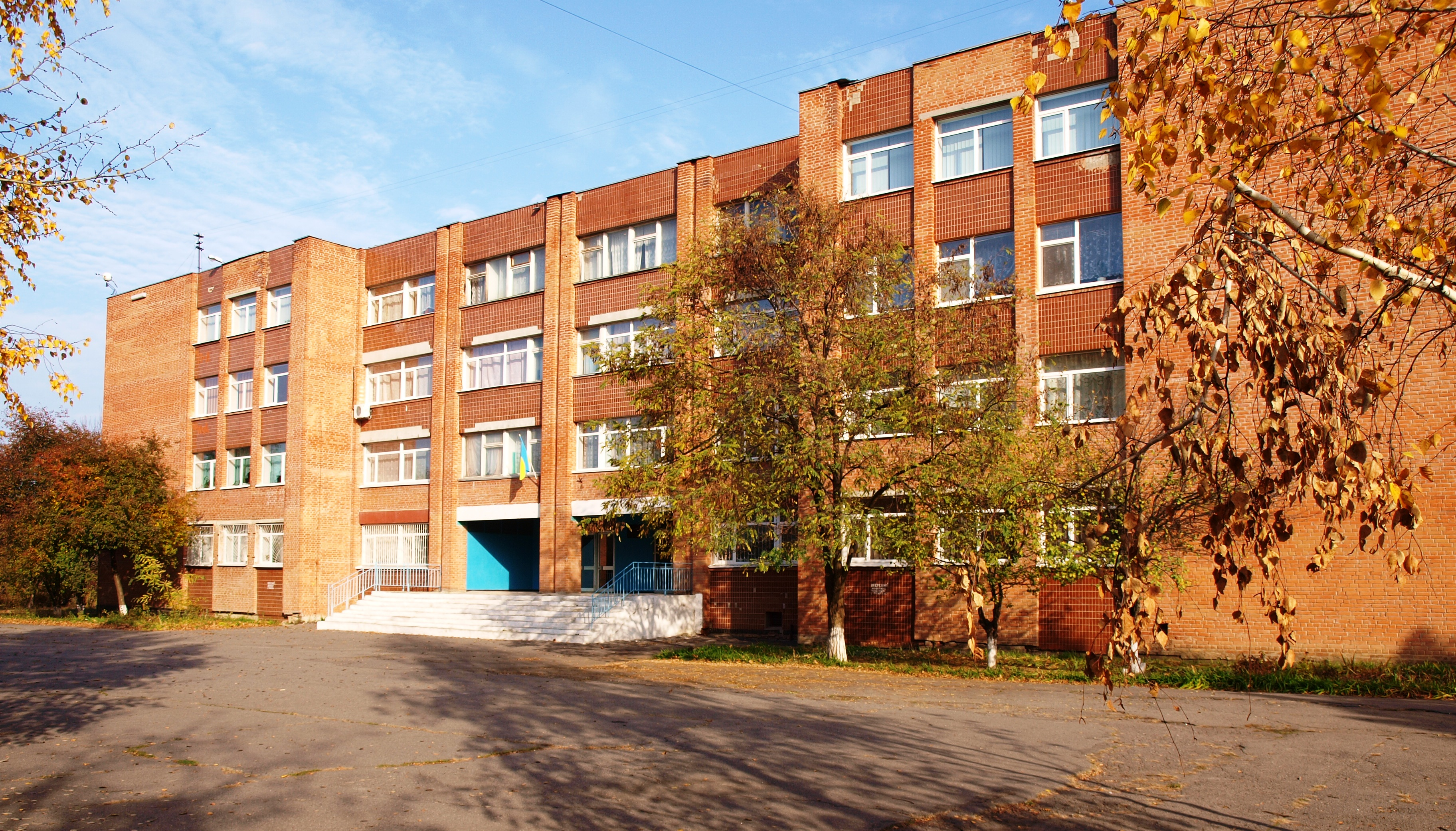 School N 34 in Poltava